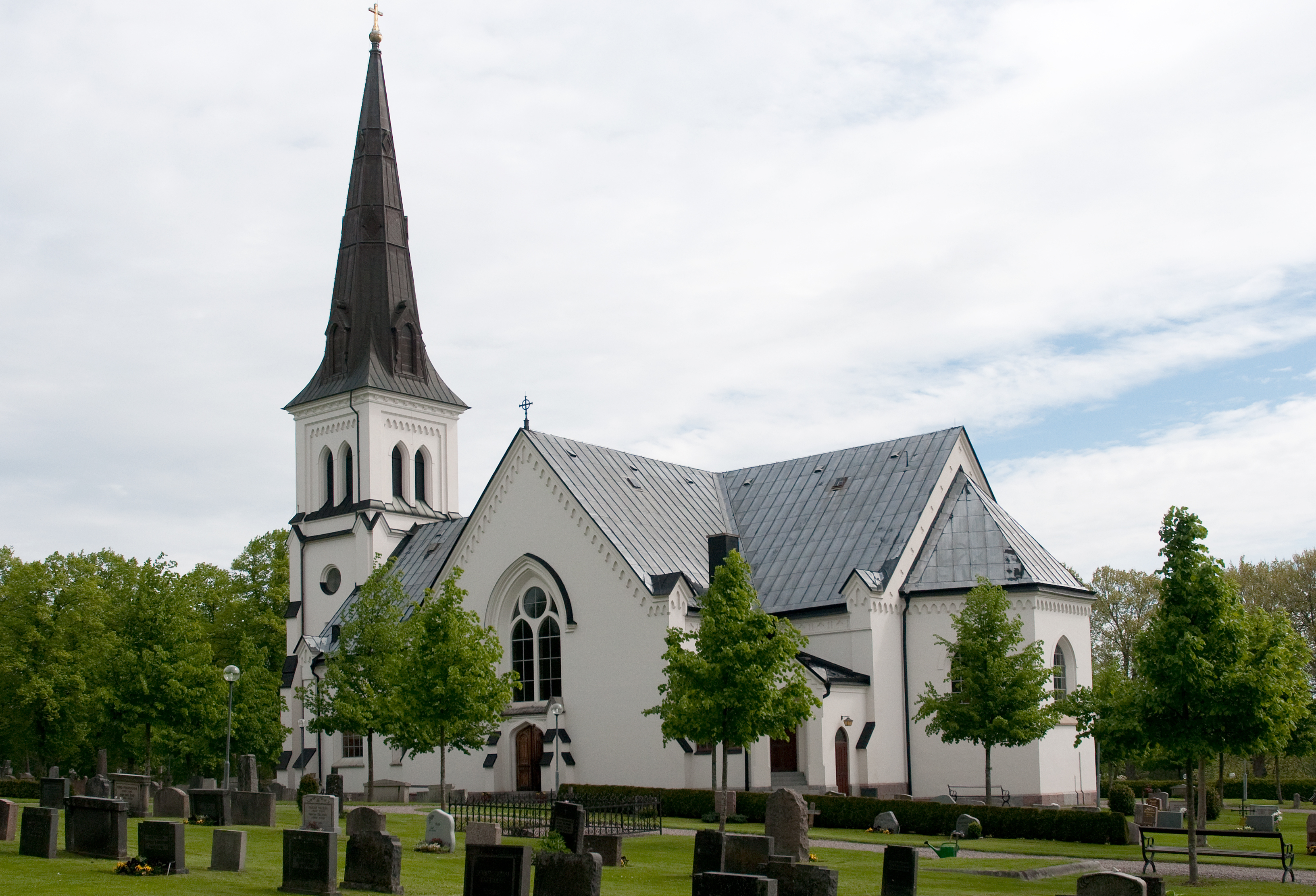 Björkvik church